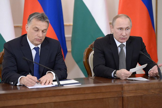 The prime-minister of Hungary Viktor Orbán during the talks in Moscow, January 14, 2014.